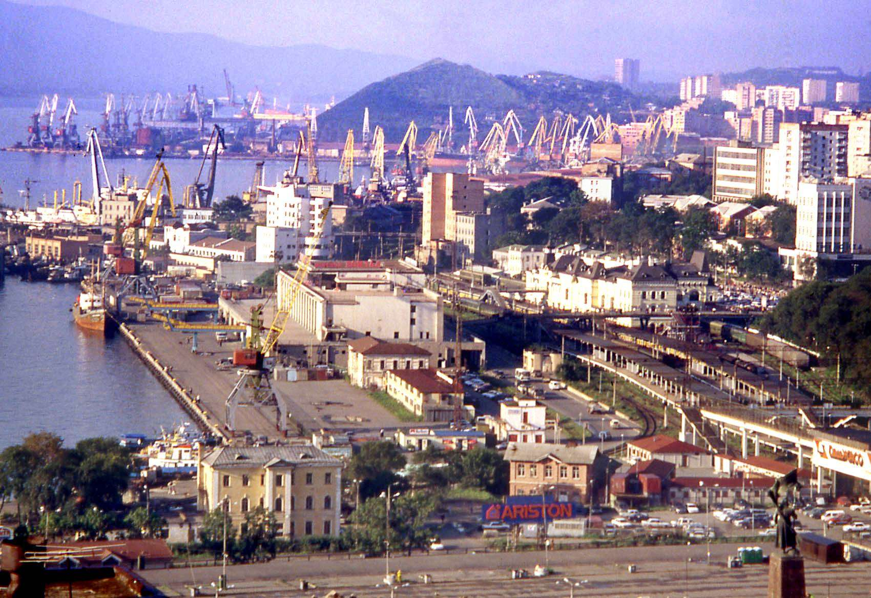 I took this picture of Vladivostok city and harbor in 2000. You can see the "Statue to the fighters for Soviet power in the Far East" in the bottom right corner. While anti-Soviet statues, like that of Russian poet Osip Mandelstam — who described Stalin as having "'little cockroach eyes' and 'fat fingers greasy like worms'" — are often vandalized, the Statue to the fighters for Soviet power in the Far East is considered one of the city's prized possessions. This version of the picture is not the original. I retain the only original, which is bigger and has more data per pixel (because it is un-enhanced), as proof that I am the owner. I give my permission to copy this picture to other language versions of Wikipedia. Kaspersky 15:46, 19 June 2006 (UTC)